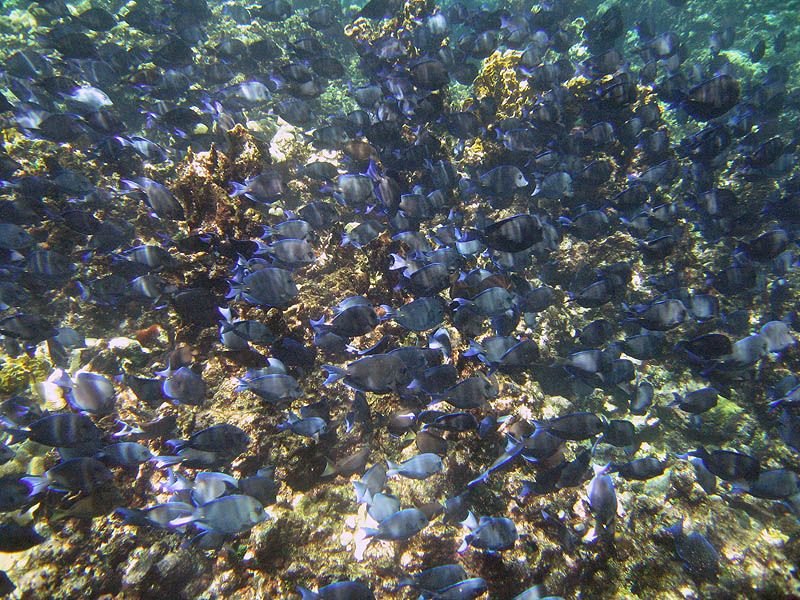 Shoal of blue tangs at Buck Island Reef National Monument, St. Croix, USVI